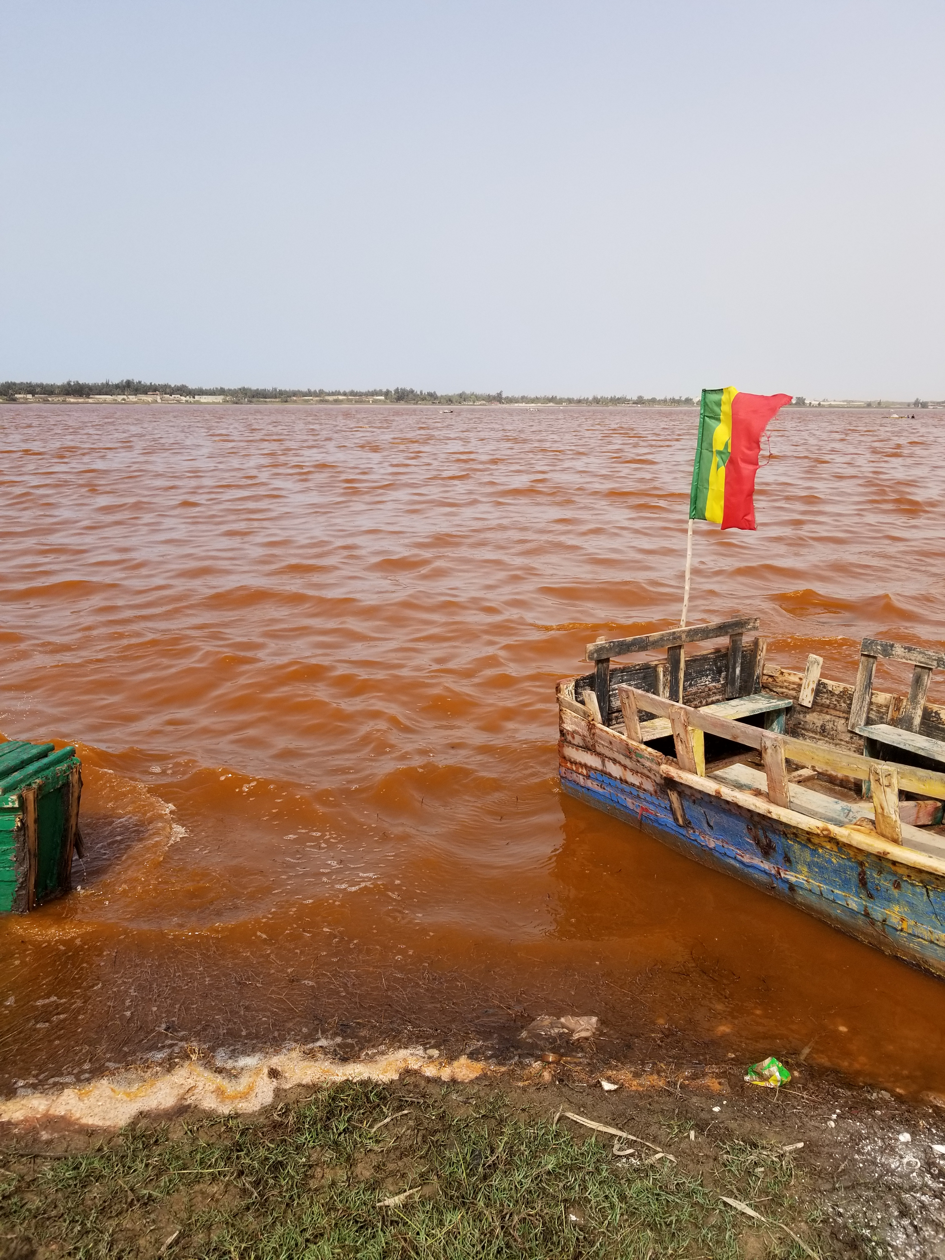 Local people offer a lot of activities to tourists, for example a row in a small boat This is an image with the theme "Africa on the Move or Transport" from: Senegal